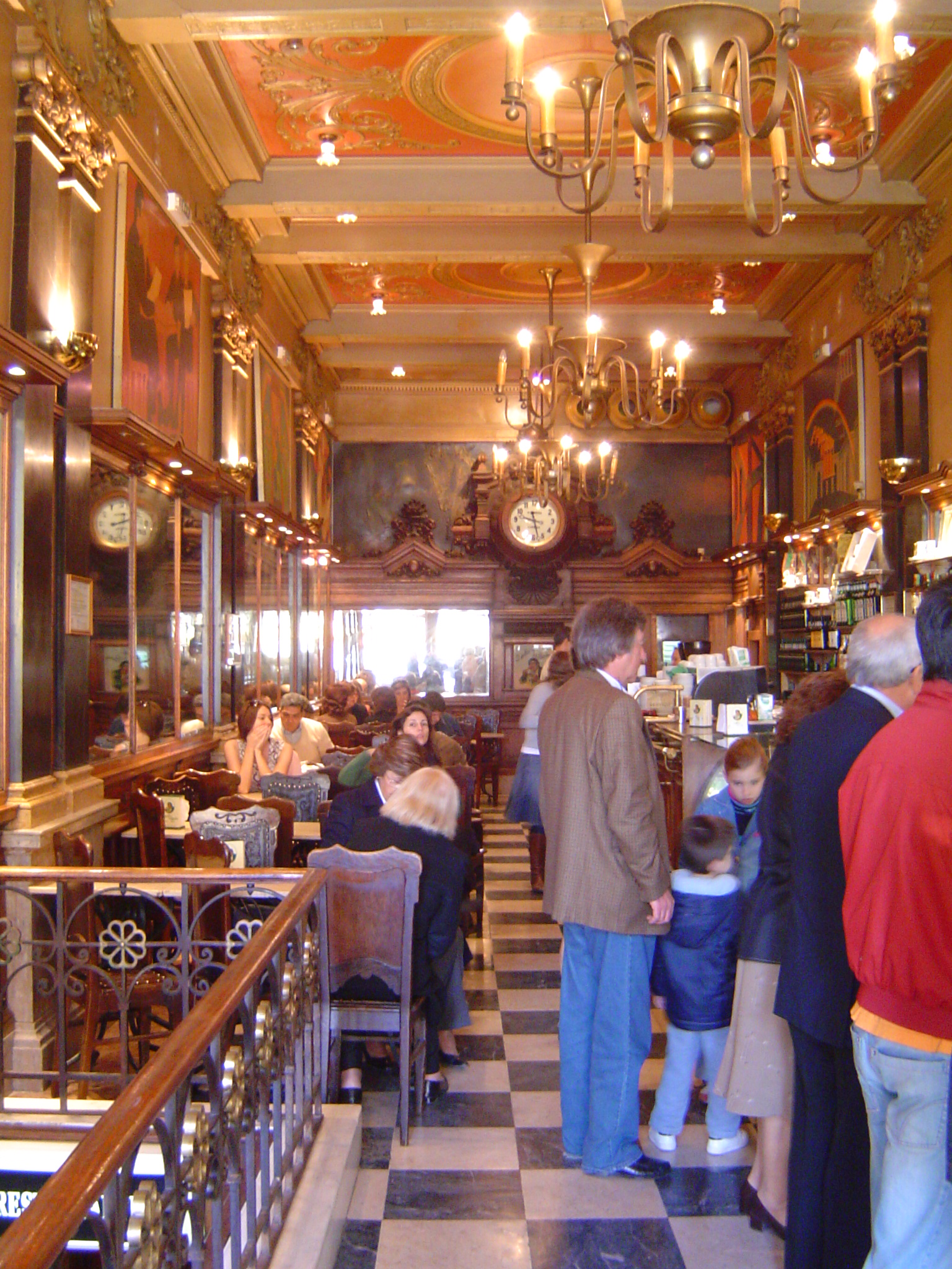 Interior of "A Brasileira" Caffee in Lisbon, Portugal